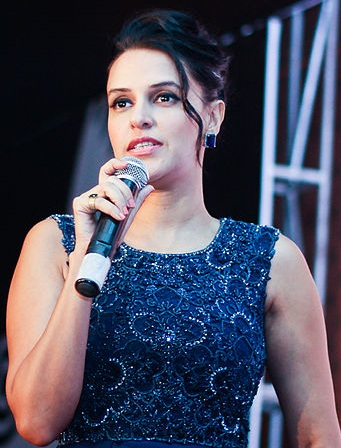 Neha Dhupia, hosting The Himalayan Times Brandfest in Nepal in August 2014